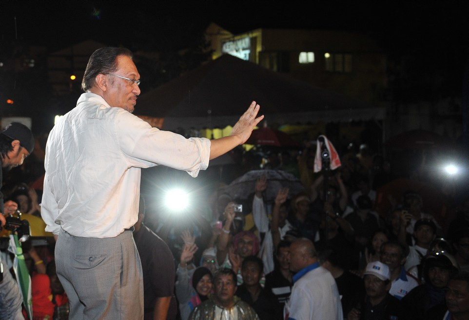 Malaysian opposition leader Anwar Ibrahim waves a hand to suppoter during an election campaign ahead of Malaysia's 13th general election in Kuala Lumpur 28 APRIL 2013